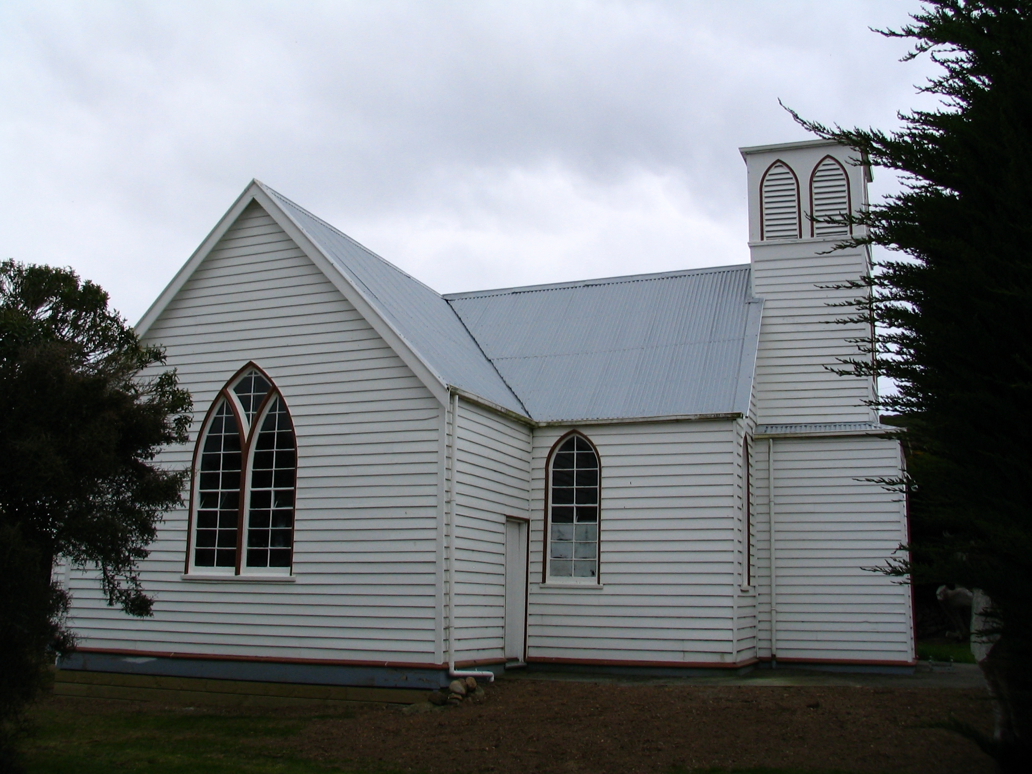 Pukehiki Community Church from the west side, Otago Peninsula, New Zealand.